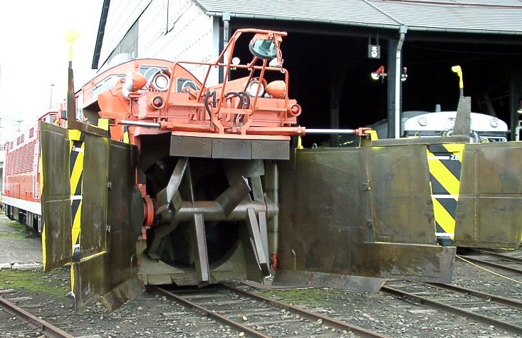 Type DD53(No.2) in Niitsu railway yard., Niigata, Japan.